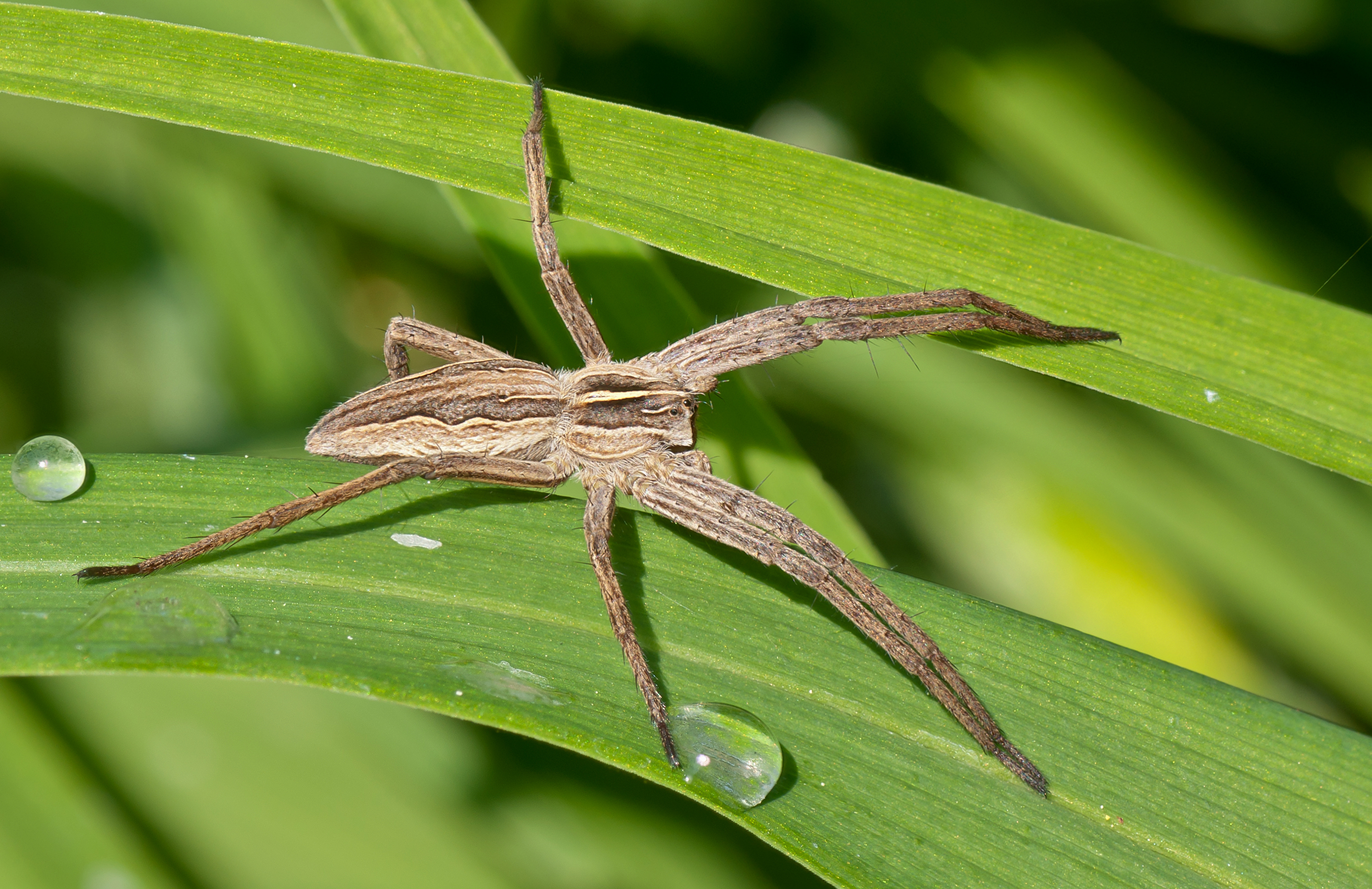 The Nursery web spider (Pisaura mirabilis) is a spider species of the family Pisauridae.